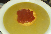 pie floater